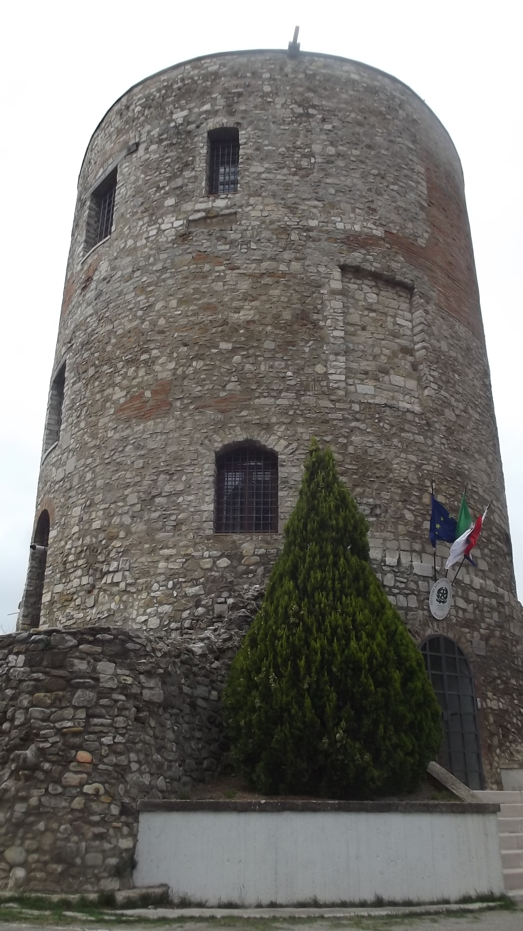 This is a photo of a monument which is part of cultural heritage of Italy.